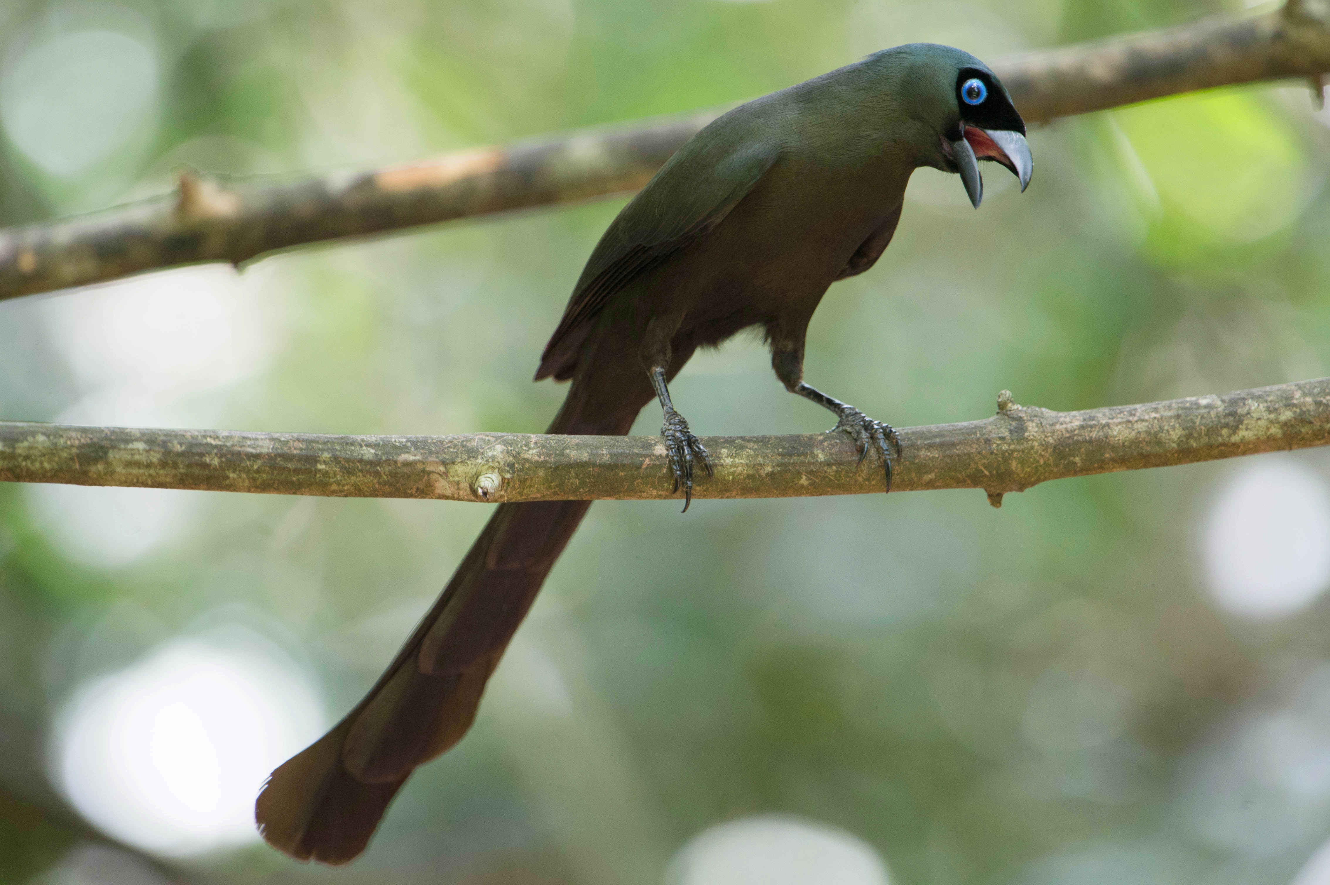 Racket-tailed treepie (Crypsirina temia) at Kaeng Krachan, Phetchaburi, ThailandBahasa Indonesia: Tangkar centrong (Crypsirina temia) di Kaeng Krachan, Phetchaburi, Thailand